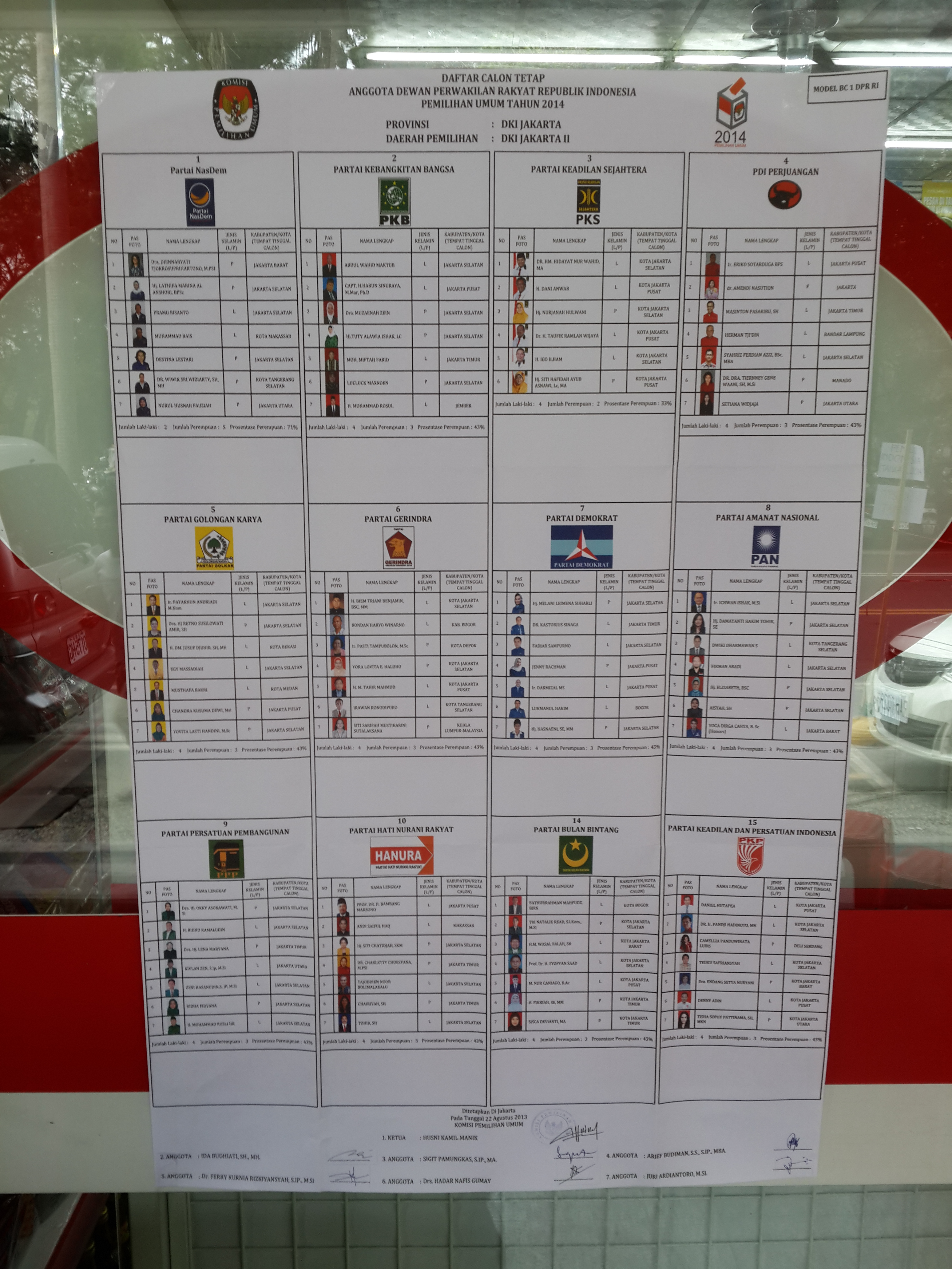 Legislative candidates list of electoral region of DKI Jakarta II